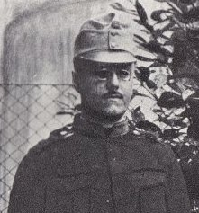 Bedřich Hrozný, the decipherer of the Hittite language, when serving in the WW1